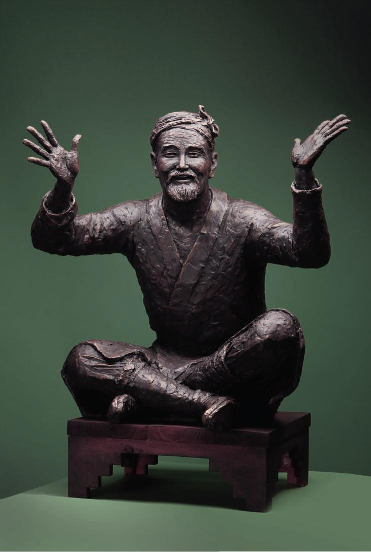 Korzhev Ivan. "Hodzha".